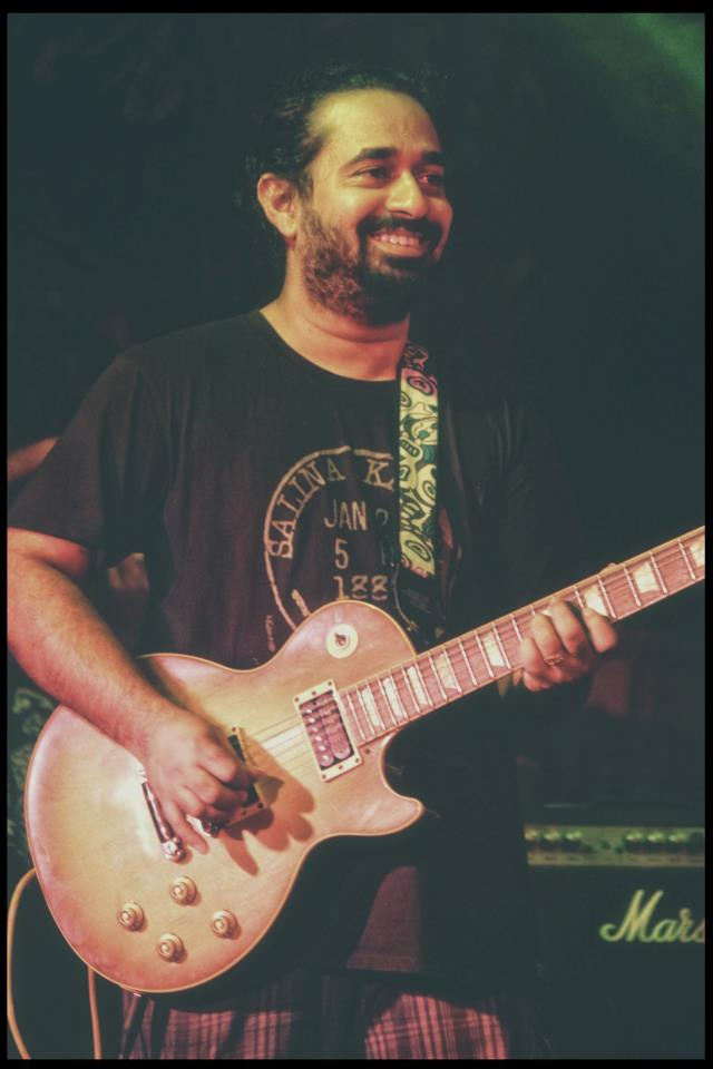 Live on stage at The Celebrate Keralam Festival (photographed by Anand Menon)